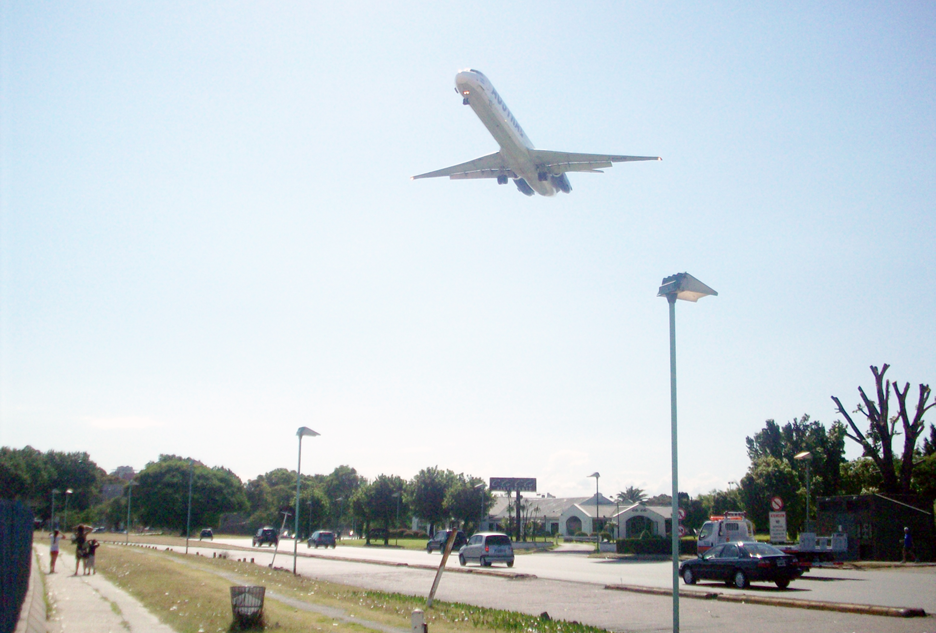 An MD-83 of Austral Líneas Aéreas landing to the runway 13 at Aeroparque Jorge Newbery in Buenos Aires, Argentina